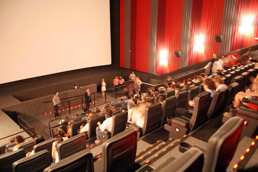 Cineflix